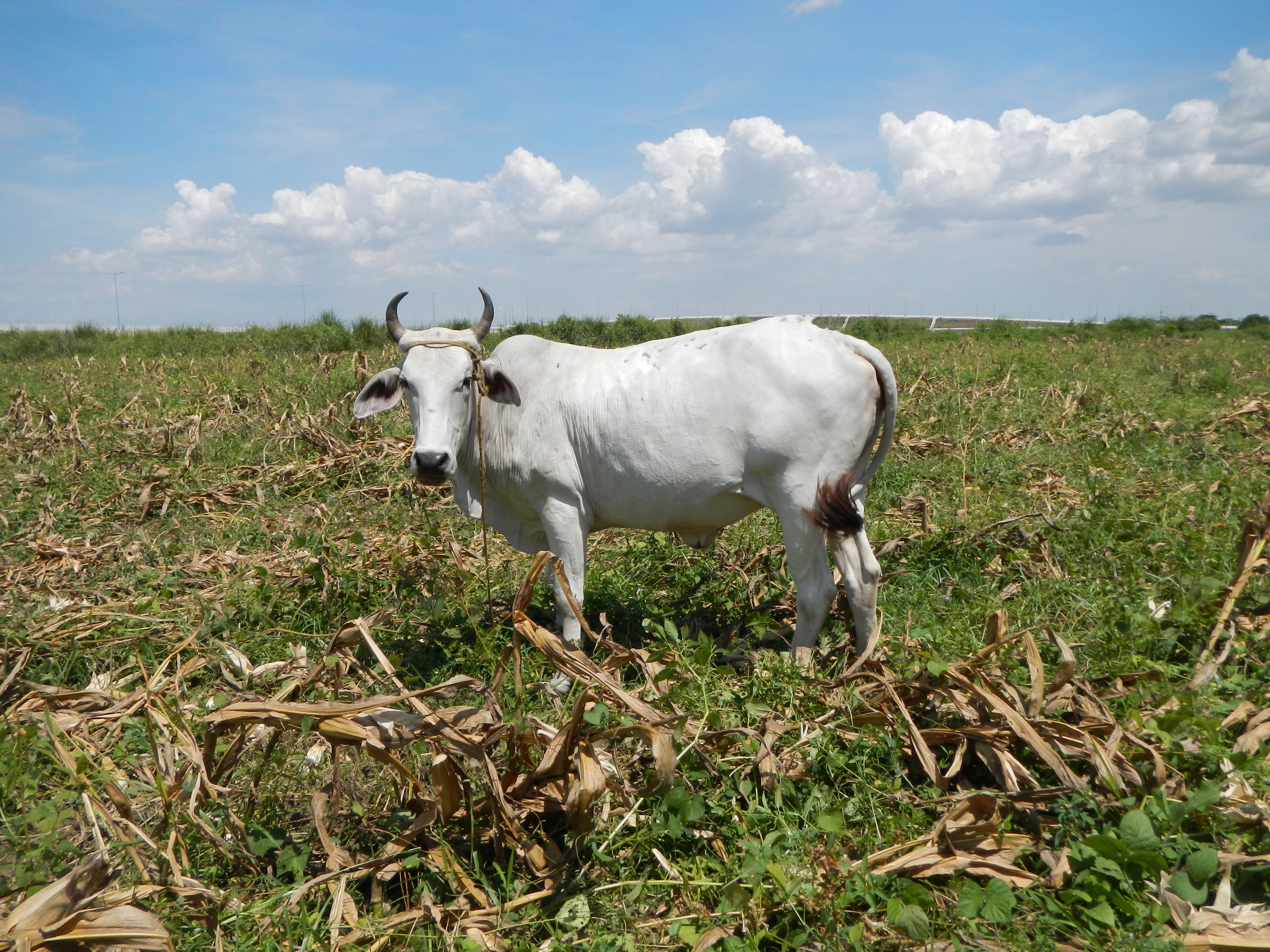 Rustic, scenic and agricultural - Tarlac City[1] The City of Tarlac is a first class city in the province of Tarlac, Philippines. Tarlac provincial capitol building is shown on the back of the Philippines 500 peso note that features former Senator Benigno Aquino Jr. According to the 2010 census, Tarlac City has a population of 318,332 people.[2]Land Area: 274.66 km² ZIP Code: 2300 Coordinates: 15°28'54"N 120°36'12"E[3]Tarlac Province is located approximately 125 kms. northeast of Metro Manila, Tarlac is the most multi-cultural of the Central Luzon provinces. A mixture of four distinct groups, the Pampangos, Ilocanos, Pangasinense and Tagalogs, share life in the province. Tarlac is best known for its fine food and vast sugar and riceplantations. That it has fine cooking to offer is due largely to the fact that it is the "Melting Pot of Central Luzon." It offers some of the best cuisines from the places of ancestry of its settlers, the province of Bulacan, Nueva Ecija, Zambales, Pangasinan and the Ilocos Region. Historical sites, fine food, vast plantations, beautiful landscaped parks and golf course, and so many other attractions - all these make the province of Tarlac one of the best places to visit in Central Luzon.[4]